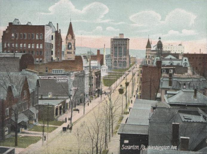 Washington Avenue, Scranton, Pennsylvania, United States.